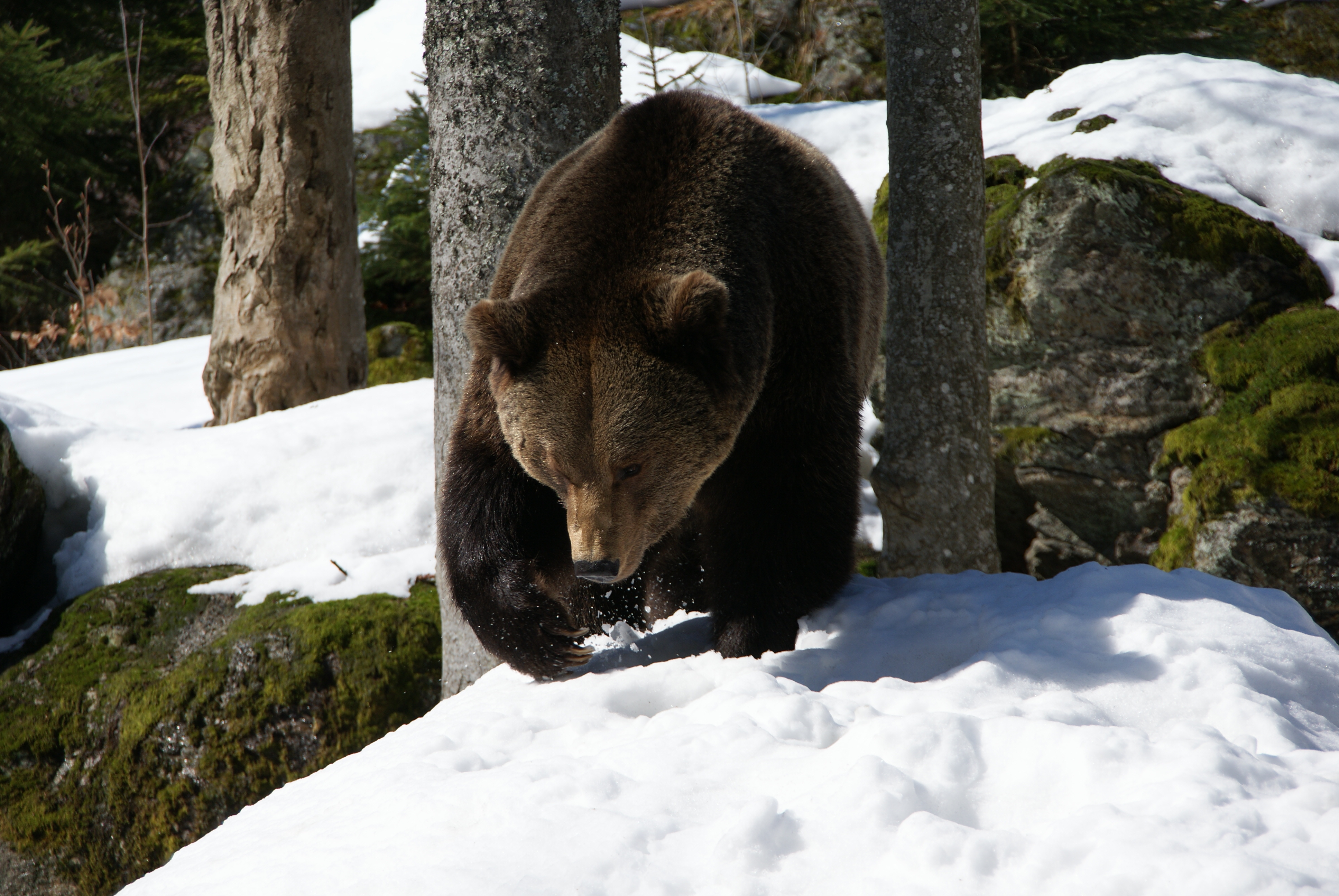 Brown Bear in an open-air enclosure at the National Park Bavarian Forest